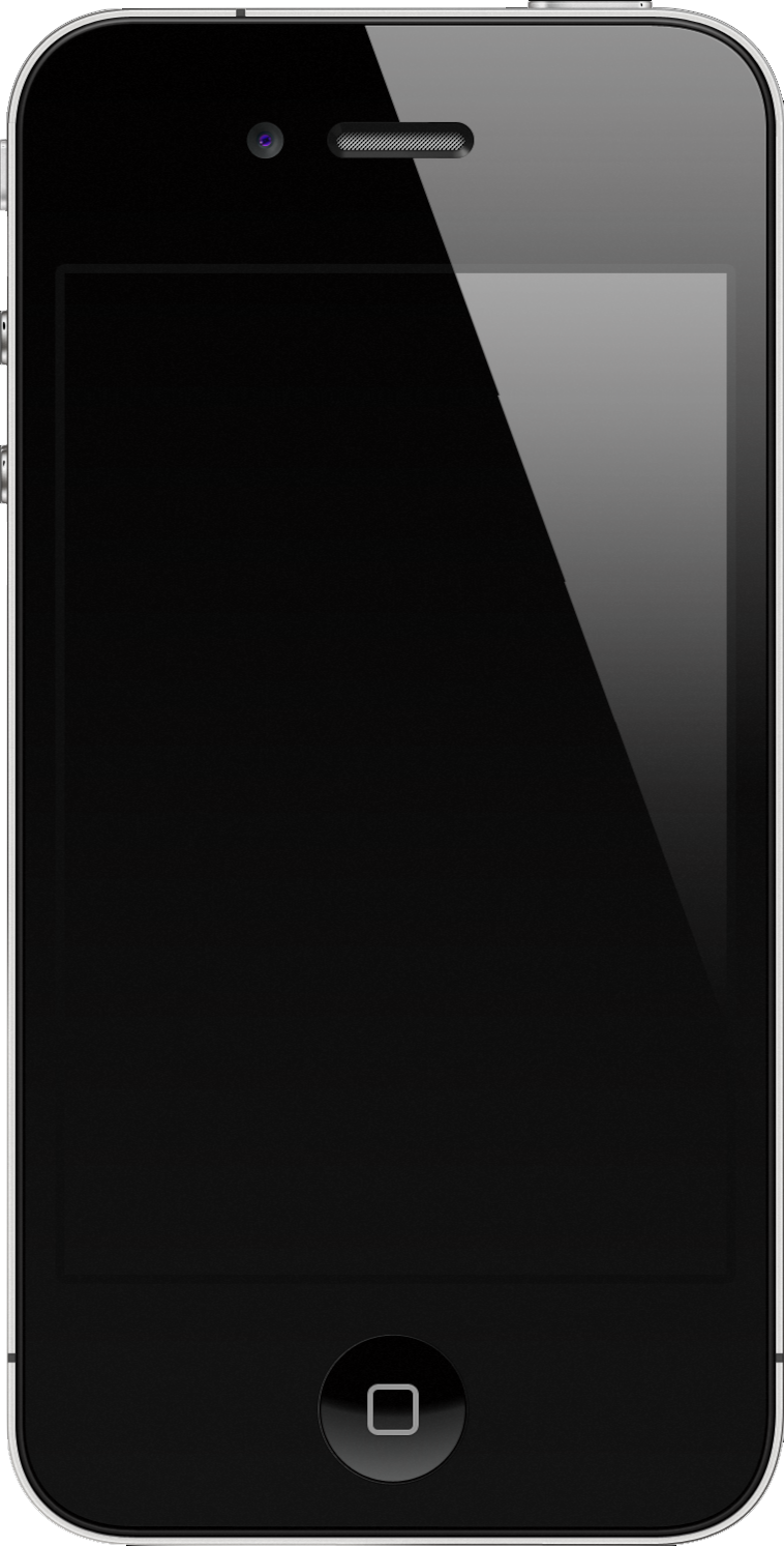 Smartphone front view with screen turned off